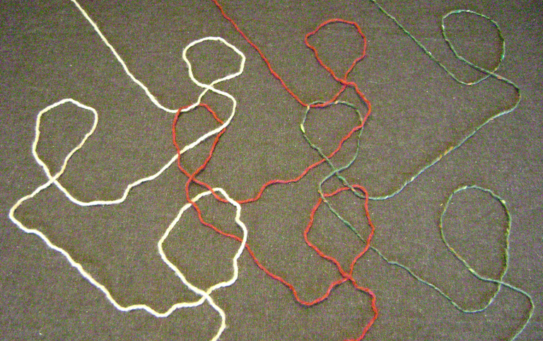 Preliminary illustration of the interlocking stitches in warp knitting. I would be most grateful to anyone who could improve upon this! Note that the yarns run vertically, zigzagging with alternating twists.